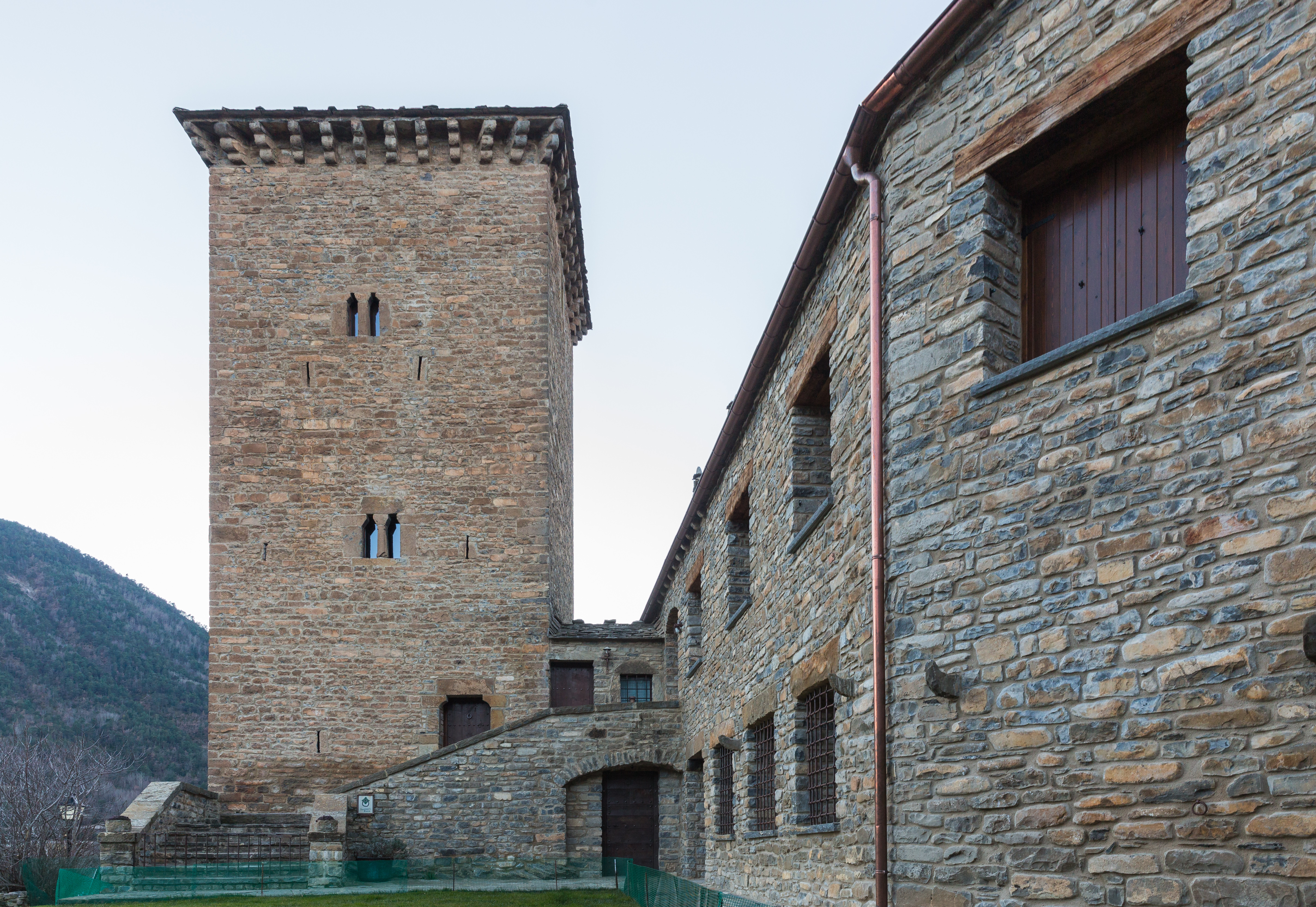 Tower of Oto, Oto, Huesca, Spain